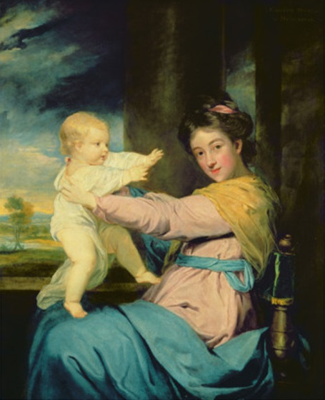 Portrait of Caroline, Duchess of Marlborough with her daughter Lady Caroline Spencer